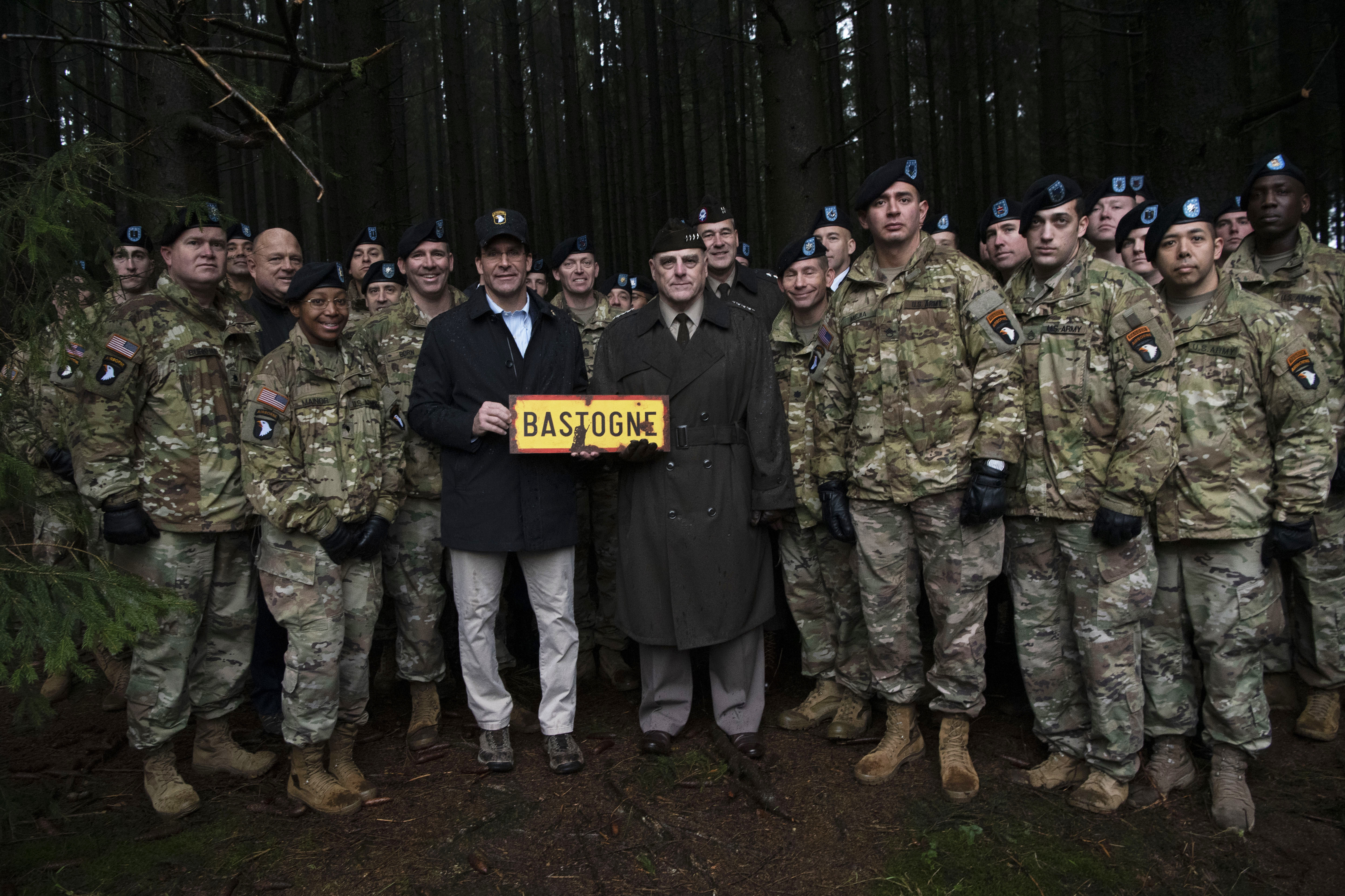 Defense Secretary Mark T. Esper and Chairman of the Joint Chiefs of Staff Gen. Mark A. Milley meet with members of the 101st Airborne Division, during a tour of the Bois Jacques, as part of events for the 75th anniversary of the Battle of the Bulge, near Bastogne, Belgium, Dec. 16, 2019. (DoD photo by Lisa Ferdinando)